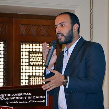 Dr.Karim El-Aqeely who was Islamic programs presenter converted to Christianity